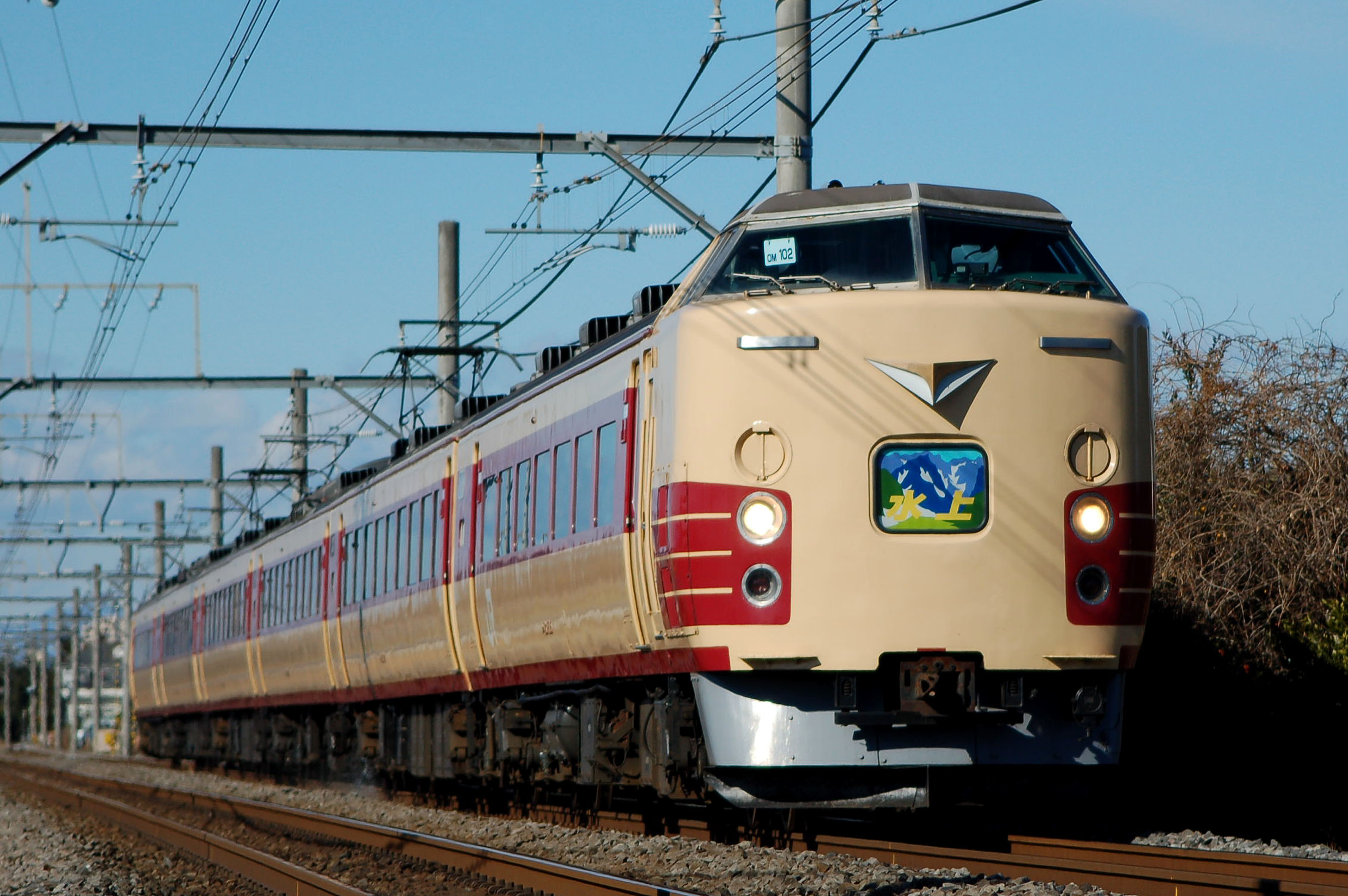 JR East 183-1000 series EMU set OM102 on a Minakami limited express service